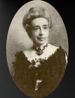 A photo of Malinda Cramer (1844 - 1906), religious author.